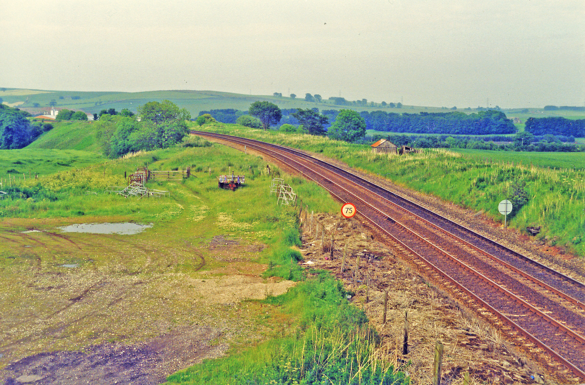 Site of Drumlithie station, 1997. View NE, towards Aberdeen: ex-Caledonian Railway Perth etc. - Forfar - Kinnaber Junction - Aberdeen main line, over which the ex-NBR had running powers north of Kinnaber Junction. The station was closed to passengers 11/6/56, to goods 23/3/64. The ex-CR main line was closed 4/9/67, since when all trains have run from the south via Montrose to Kinnaber Junction.